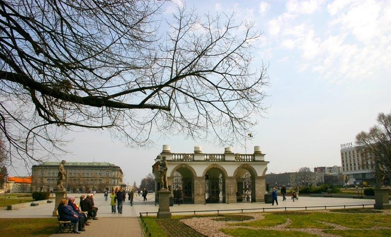 Tomb of the Unknown Soldier in Warsaw with permission of the authors